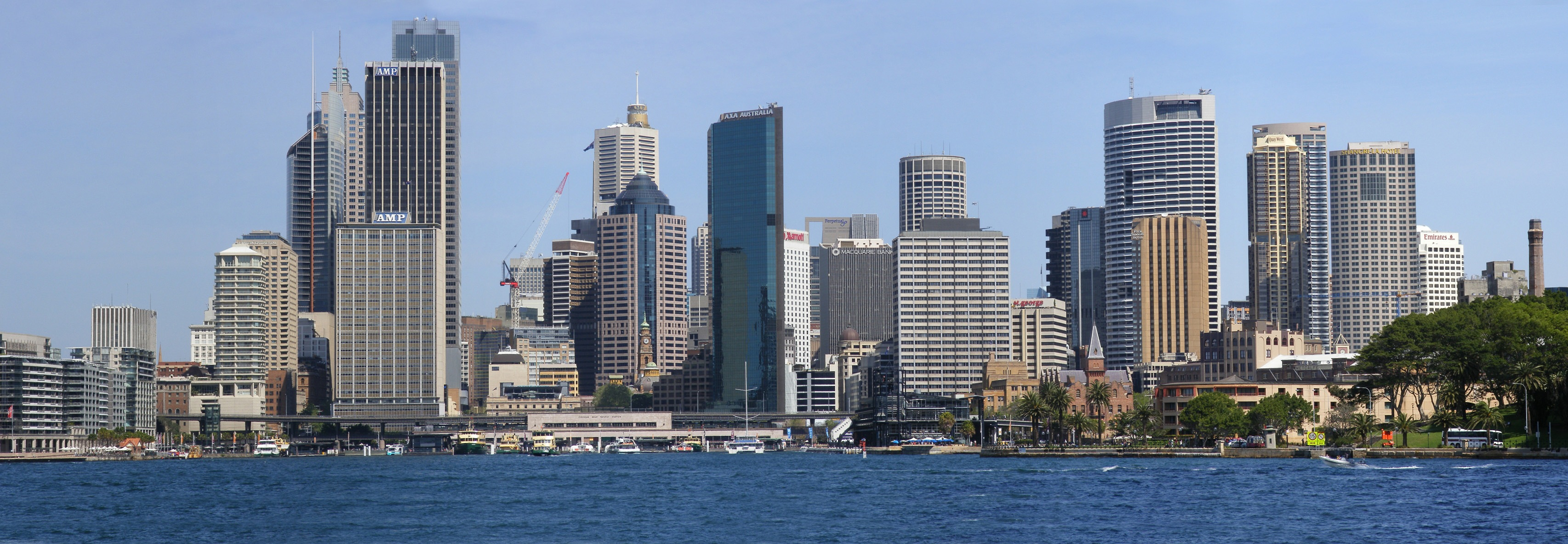 City of Sydney